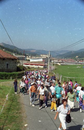 People in Kilometroak festival, Oñati, 1989.